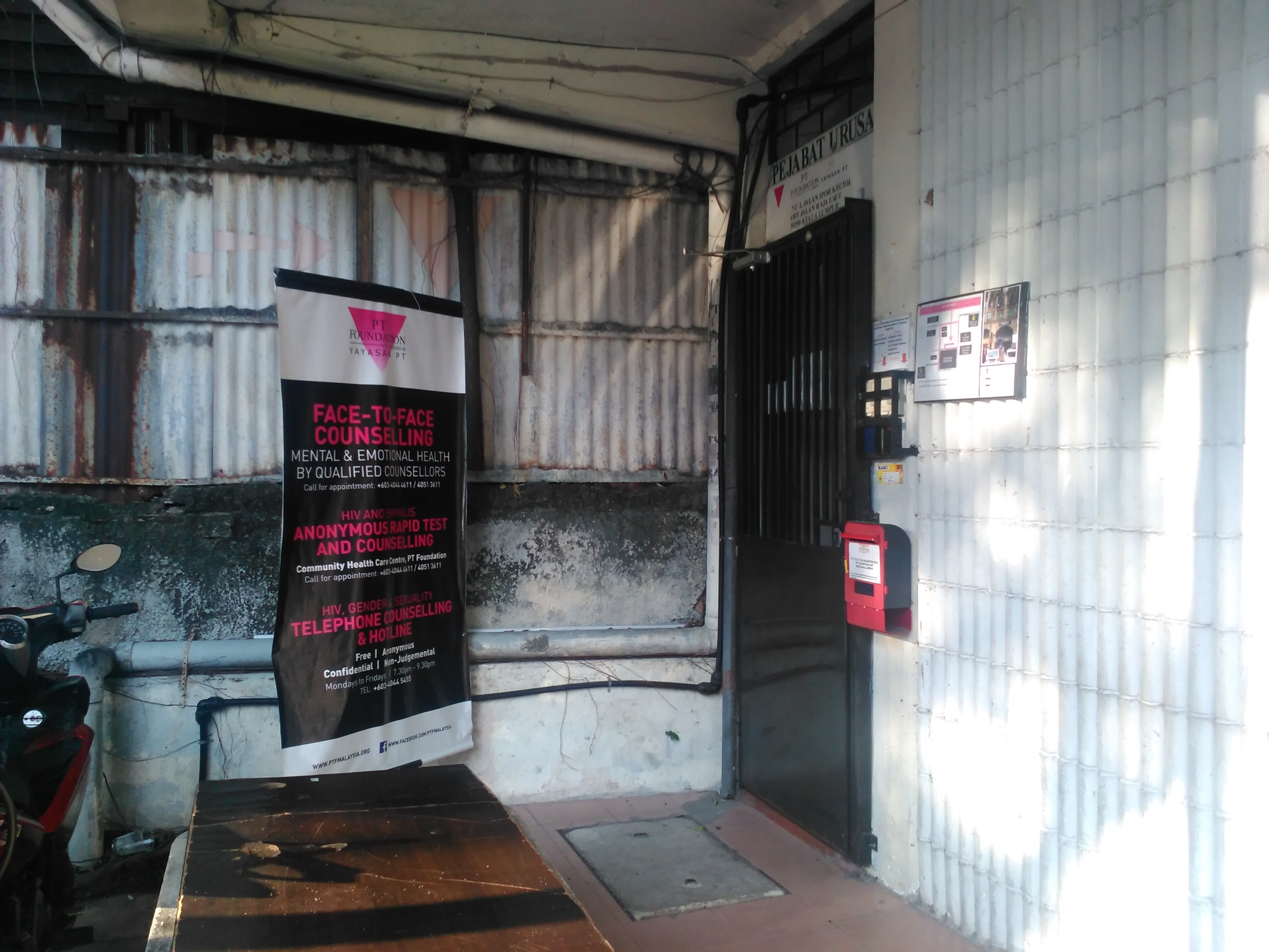 PT Foundation (formerly Pink Triangle Sdn Bhd) - An LGBT centre in Kuala Lumpur - No. 7C/1, Jalan Ipoh Kecil, Off Jalan Raja Laut, 50350 Kuala Lumpur.